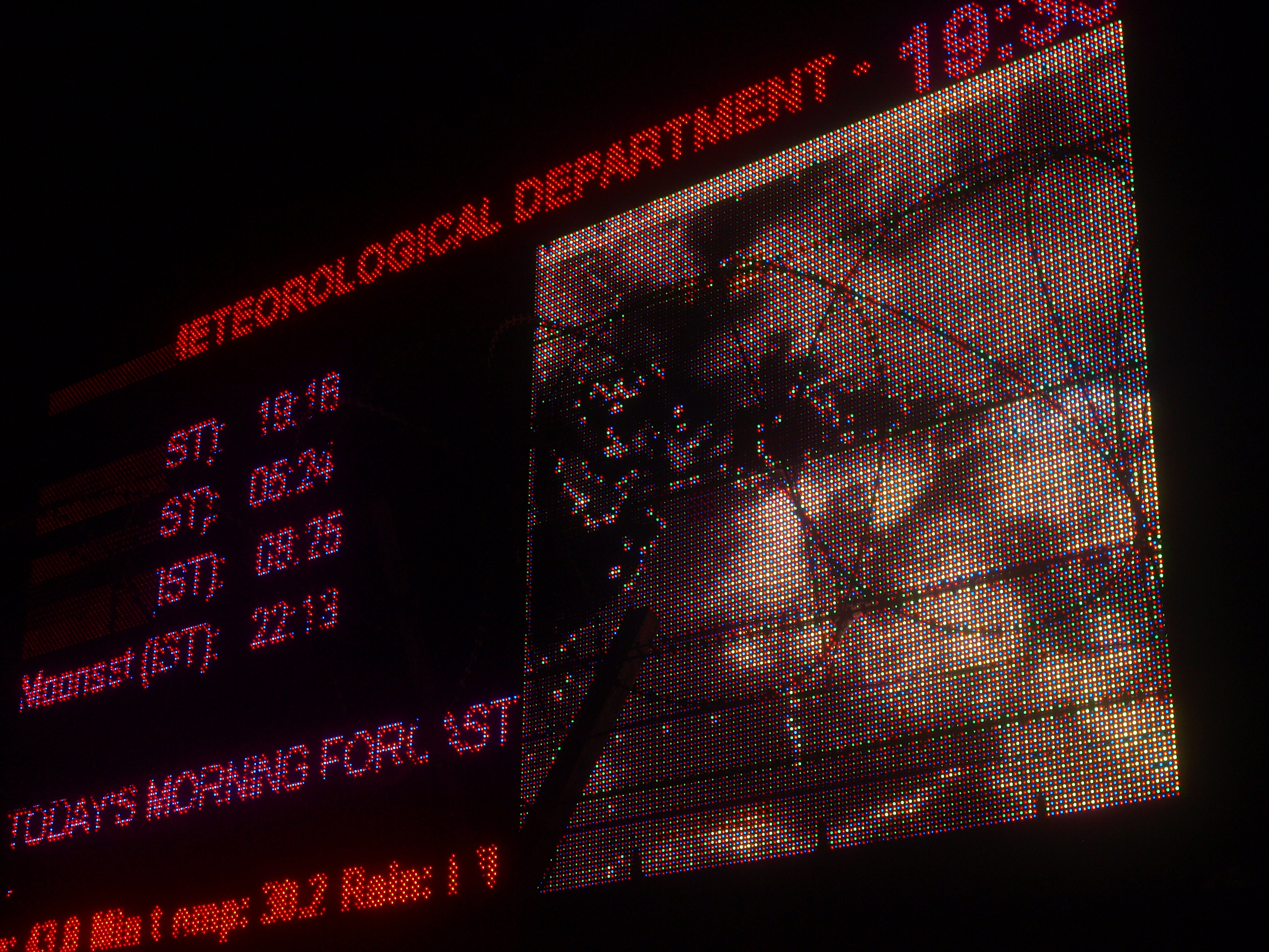 New Delhi Met Office, India